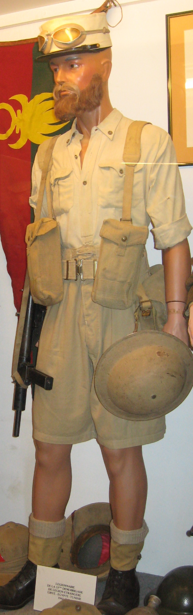 Legionnaire of the French foreign legion 13th DBLE 1942 1943 libya egypt tunisie French foreign Legion Museum - Uniforms' part - Puyloubier (France)